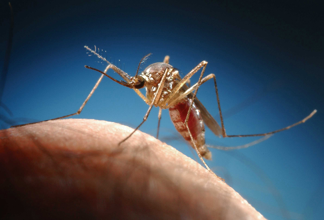 Mosquito on finger.